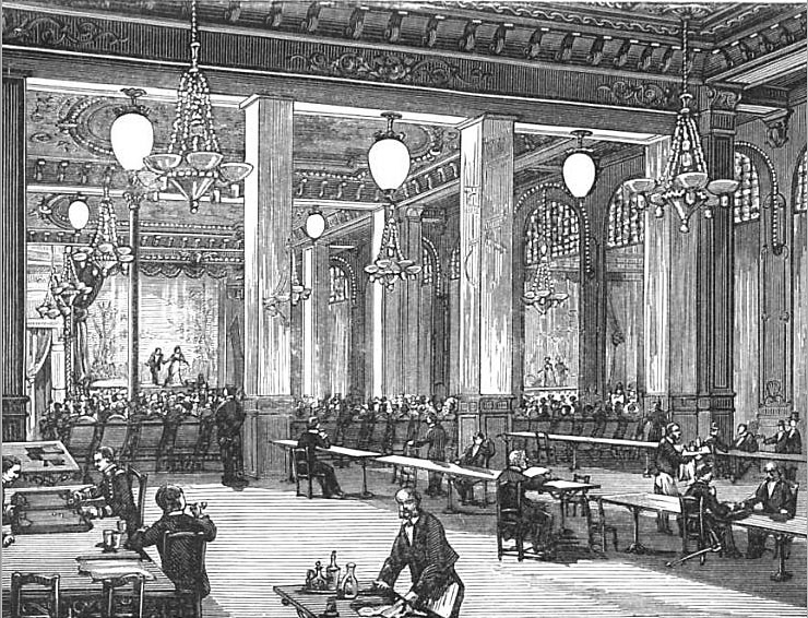 Yablochkov arc lamps illuminating Music hall on la Place du Chateau d'eau in Paris ca 1880. - N.B.: Place du Château d'eau is the former name of Place de la République.